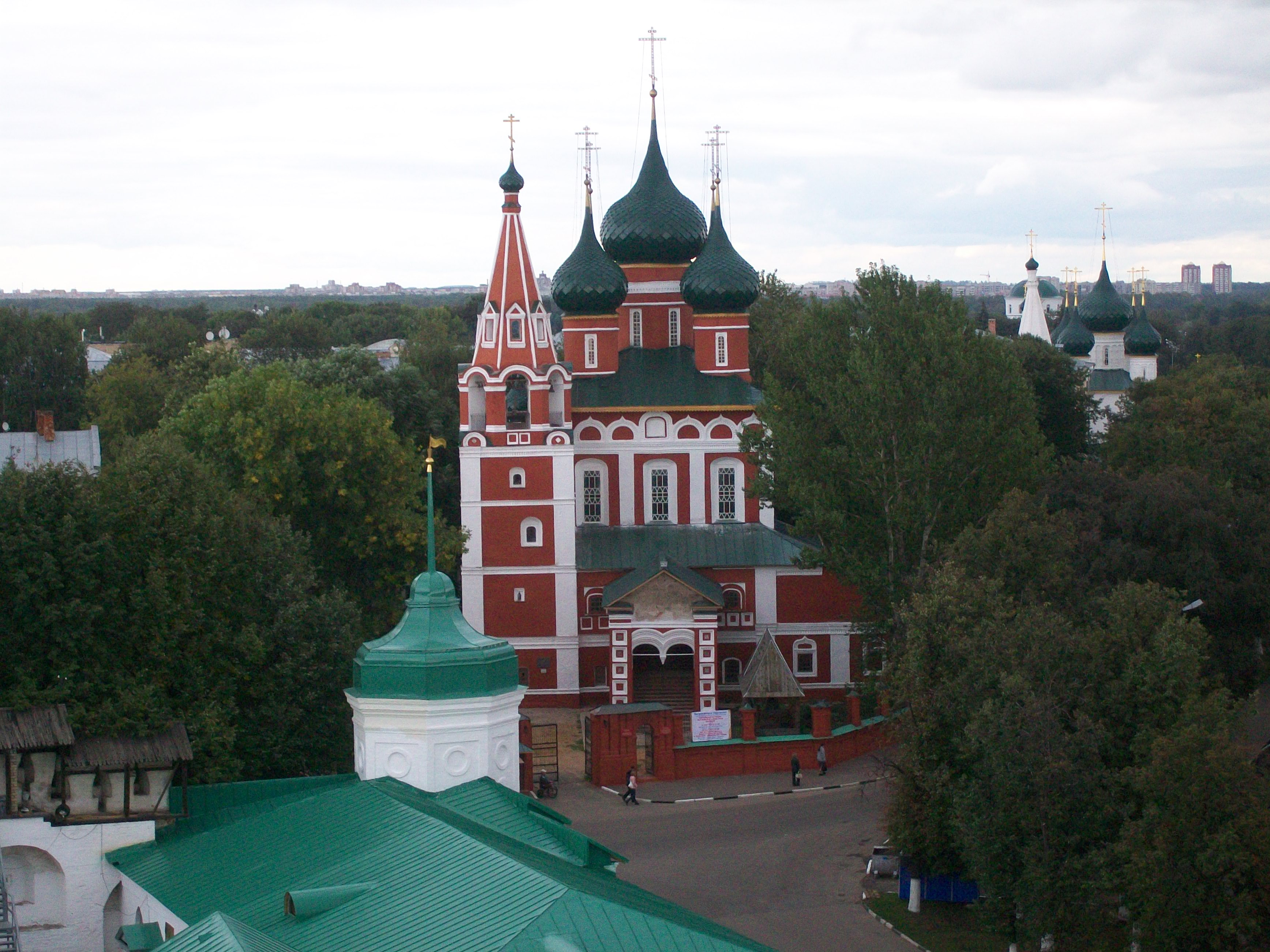 Temple in Yaroslavl opposite to the Spaso-Preobrazhenskiy monastery